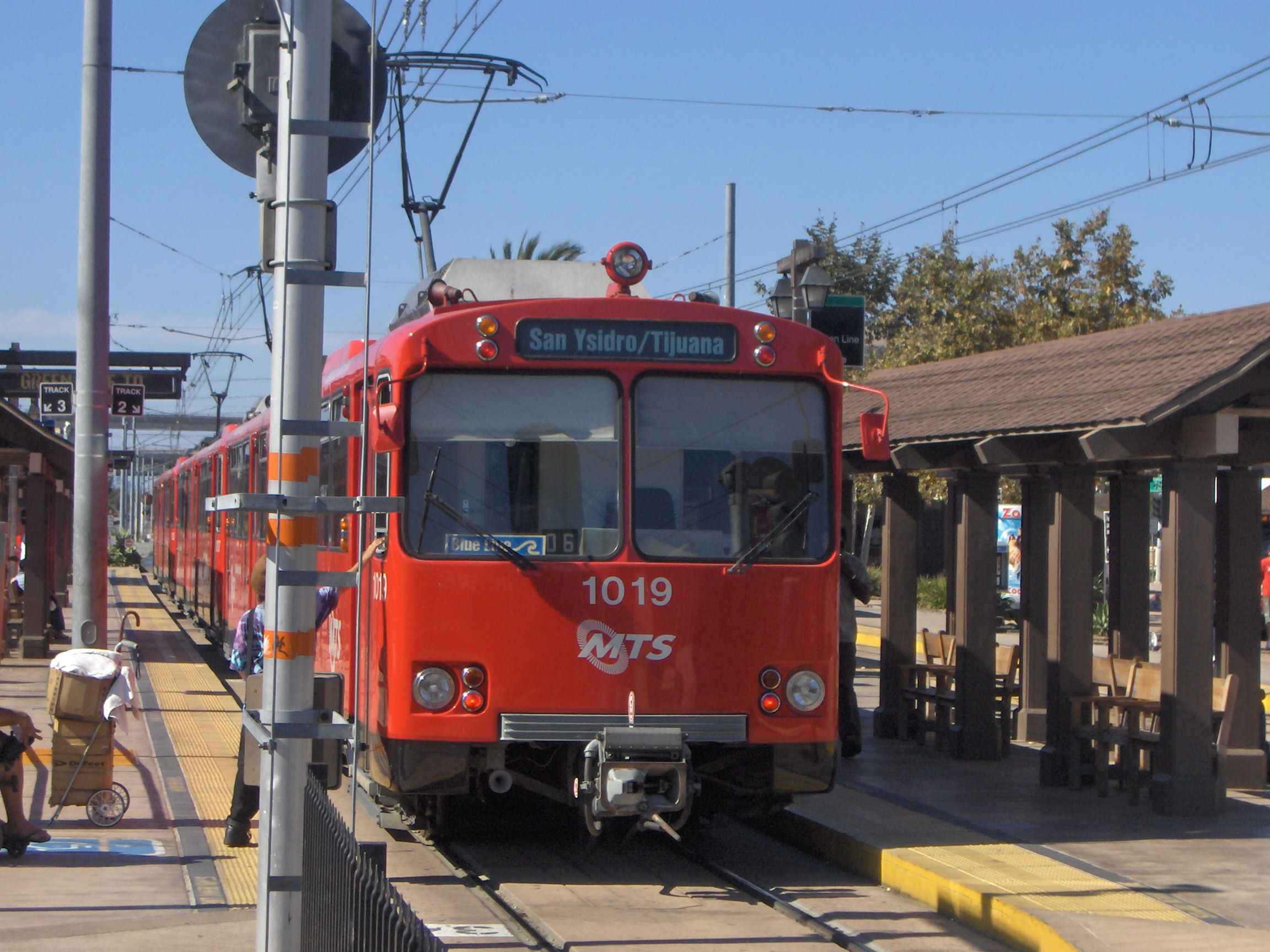 San Diego, California, Tramway to Tijuana, Mexico, at Old Town station